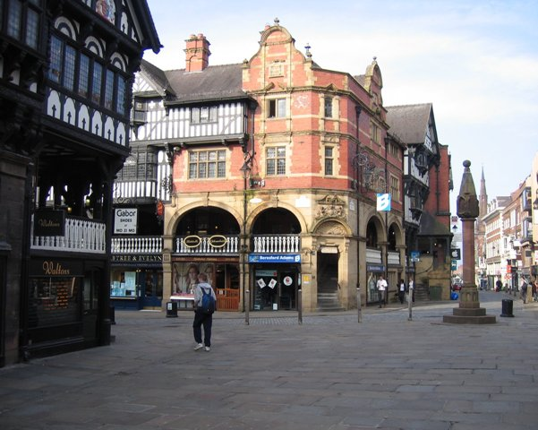 Chester Cross Looking across the pedestrianised area at Chester Cross towards Bridge Street on the left and Watergate Street to the right. The restored and medieval cross is on the right. The red brick and stone building on the corner is Victorian and is dated 1892.